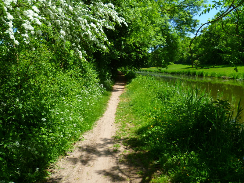 The Orange Way after Wiltshire (31)